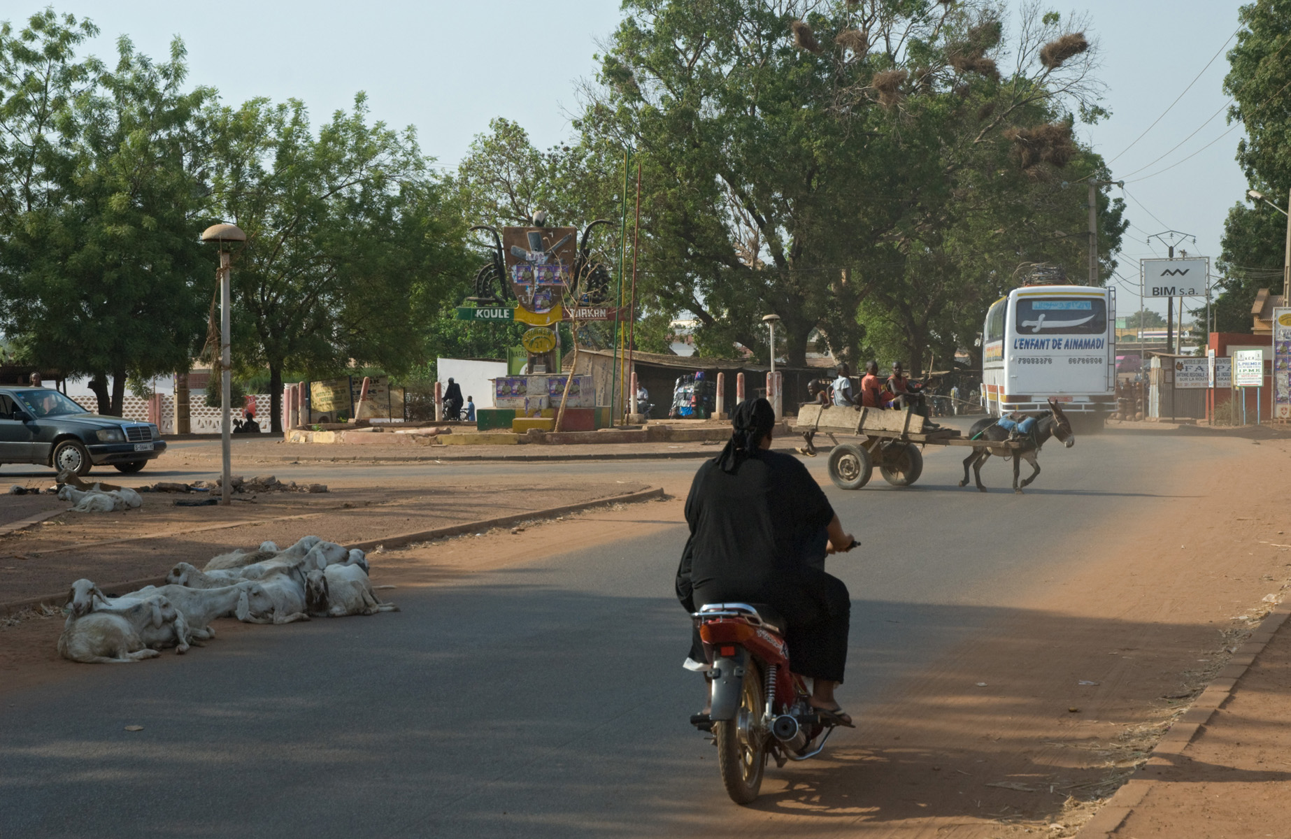 Street scene near the centre of Koutiala (April 2014)